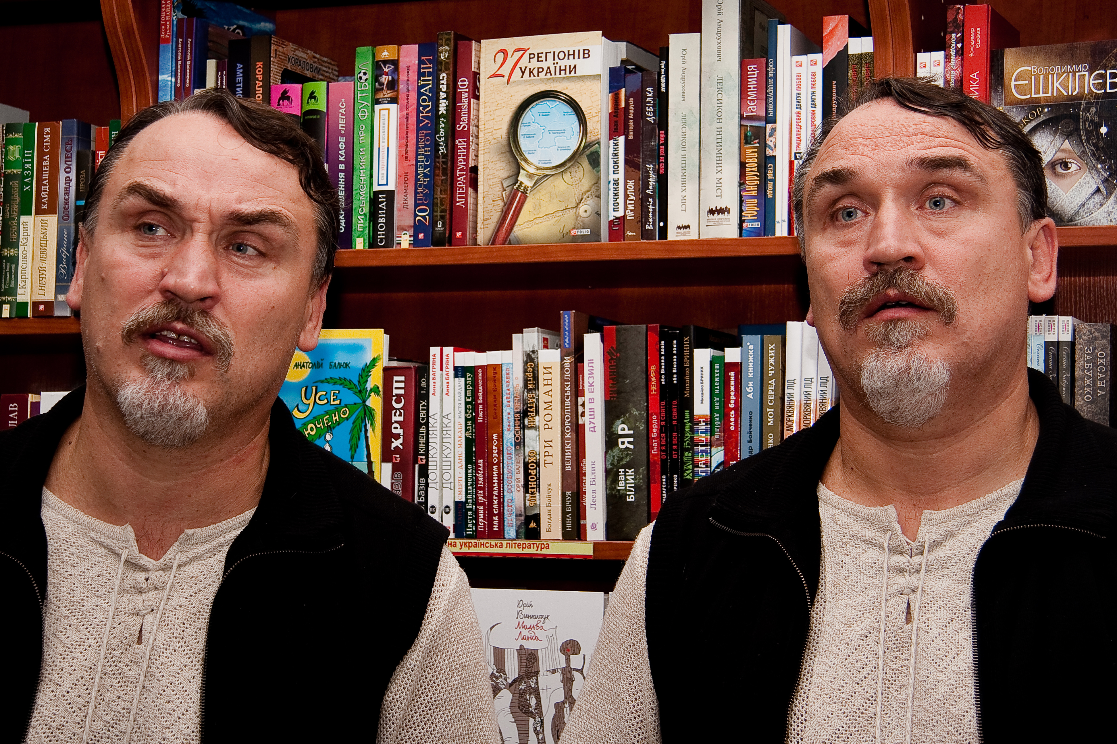 Karpanov twins in Vinnitsya, november 2012